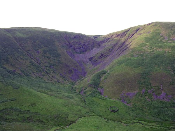 The Devil's Beef Tub. This fine Corrie was created in the ice age by glacial action. The Devils Beef Tub is also the source of the River Annan that runs through Moffat and Annan Dale.